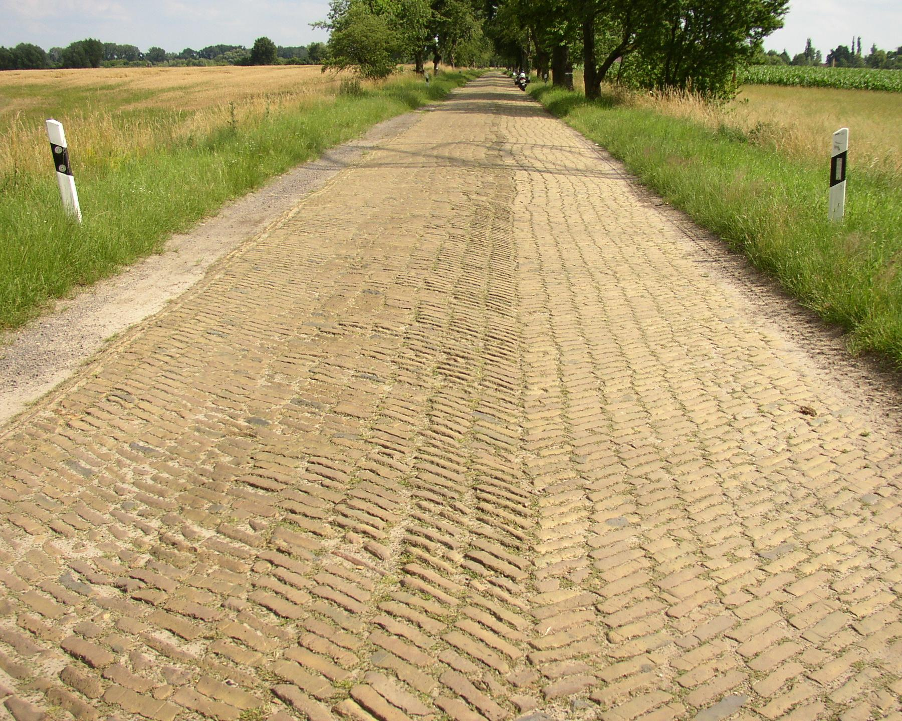 Brick road in Päwesin-Riewend in Brandenburg, Germany